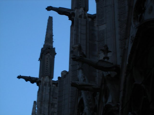 Cathédrale_Notre_Dame_de_Paris（石像鬼）.jpg